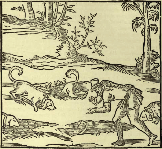 first mention of a "basset" dog in La Venerie, an illustrated hunting text written by Jacques du Fouilloux